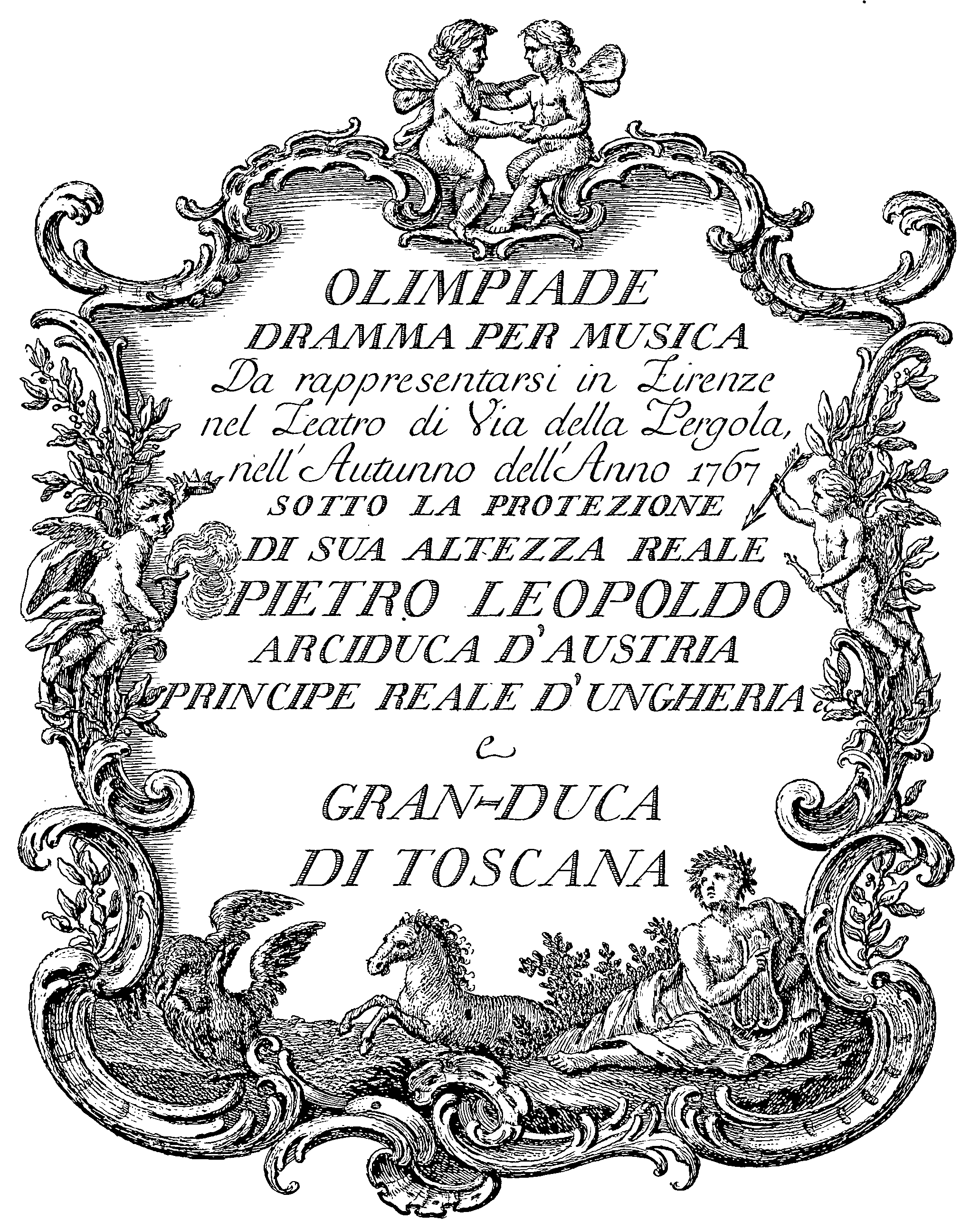 Tommaso Traetta - Olimpiade - titlepage of the libretto - Florenz 1767